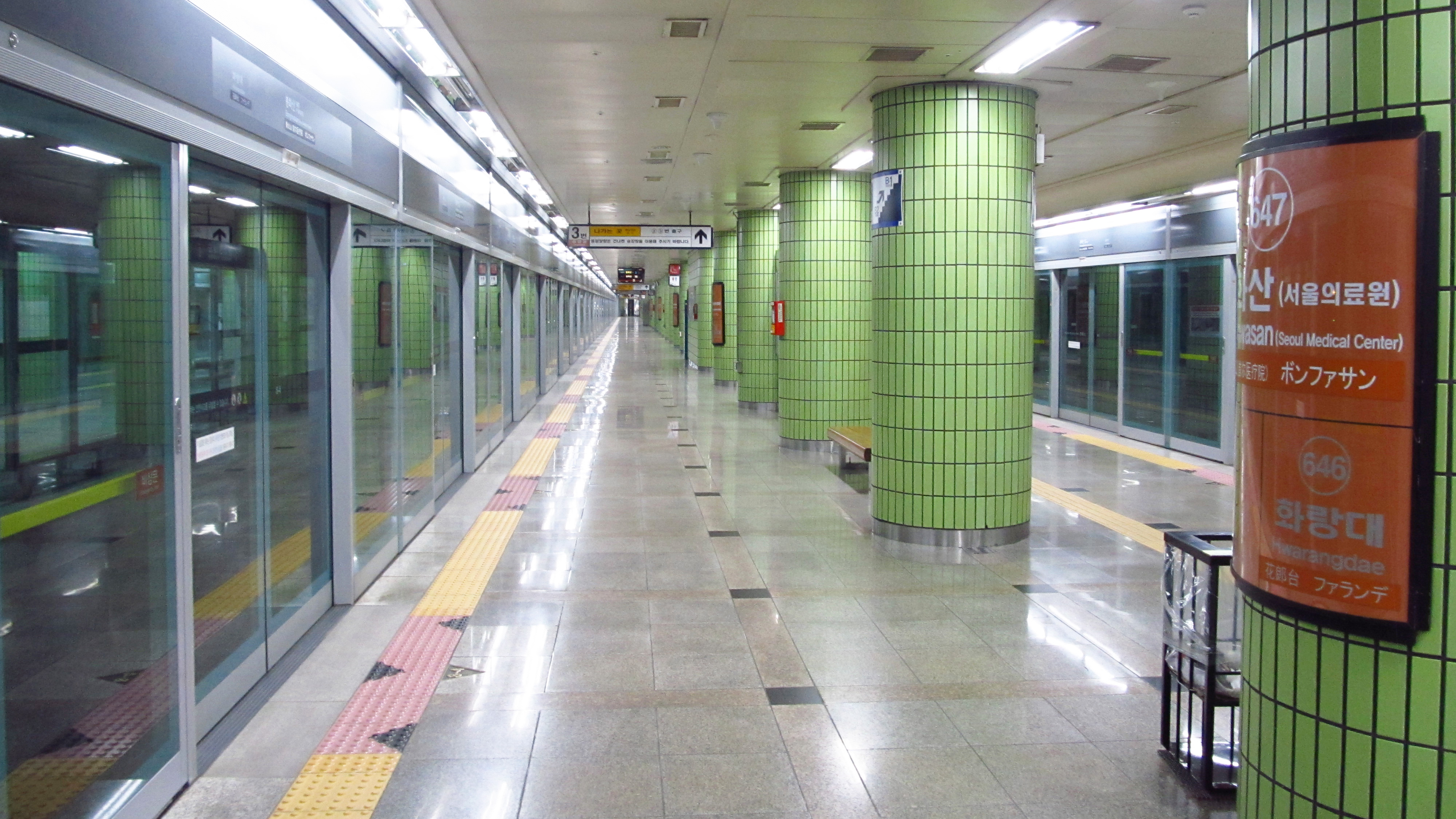 The platform at Bonghwasan Station on Seoul Subway Line 6 in Jungnang-gu, Seoul, Republic of Korea(South Korea)